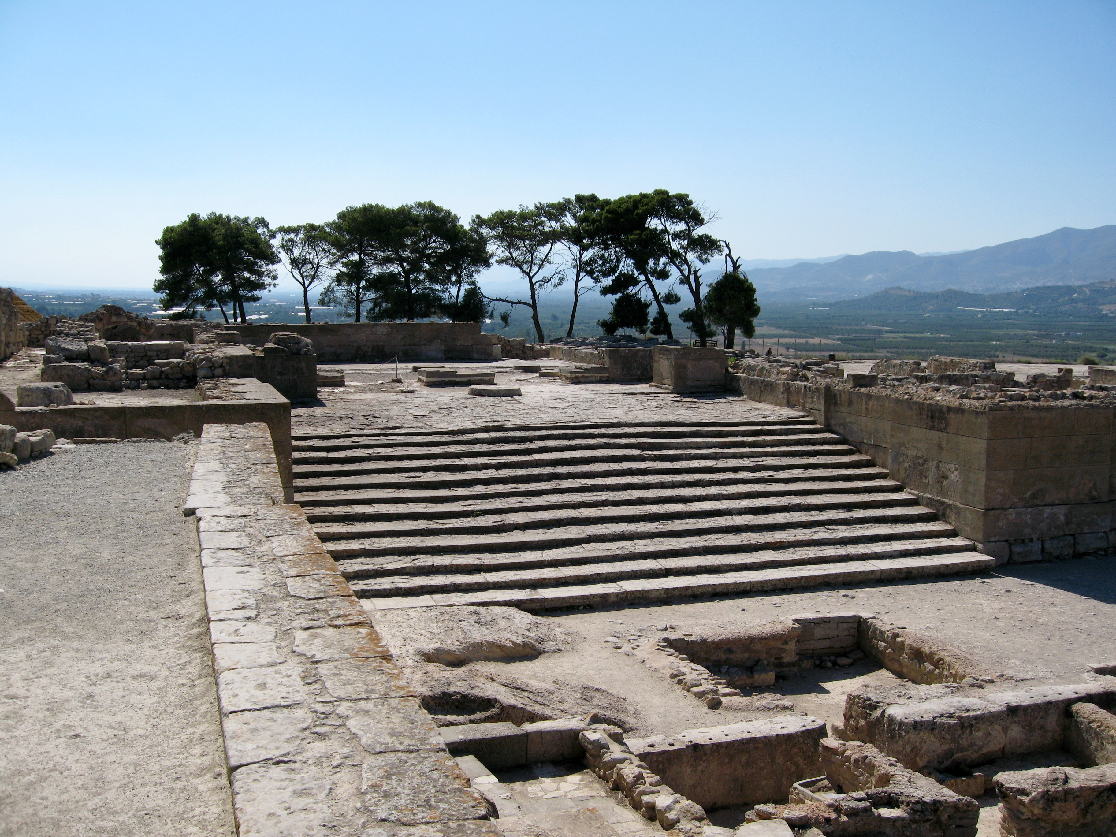 Phaistos, Crete, Greece